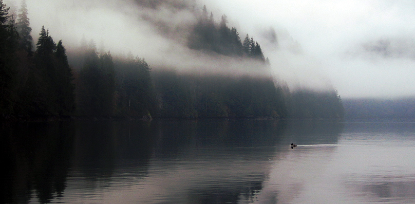 Zeballos, British Columbia